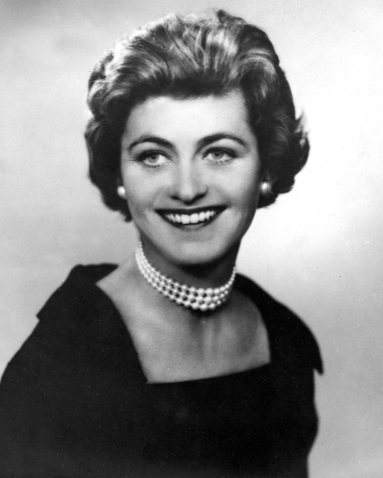 PC 1651 Jean Kennedy